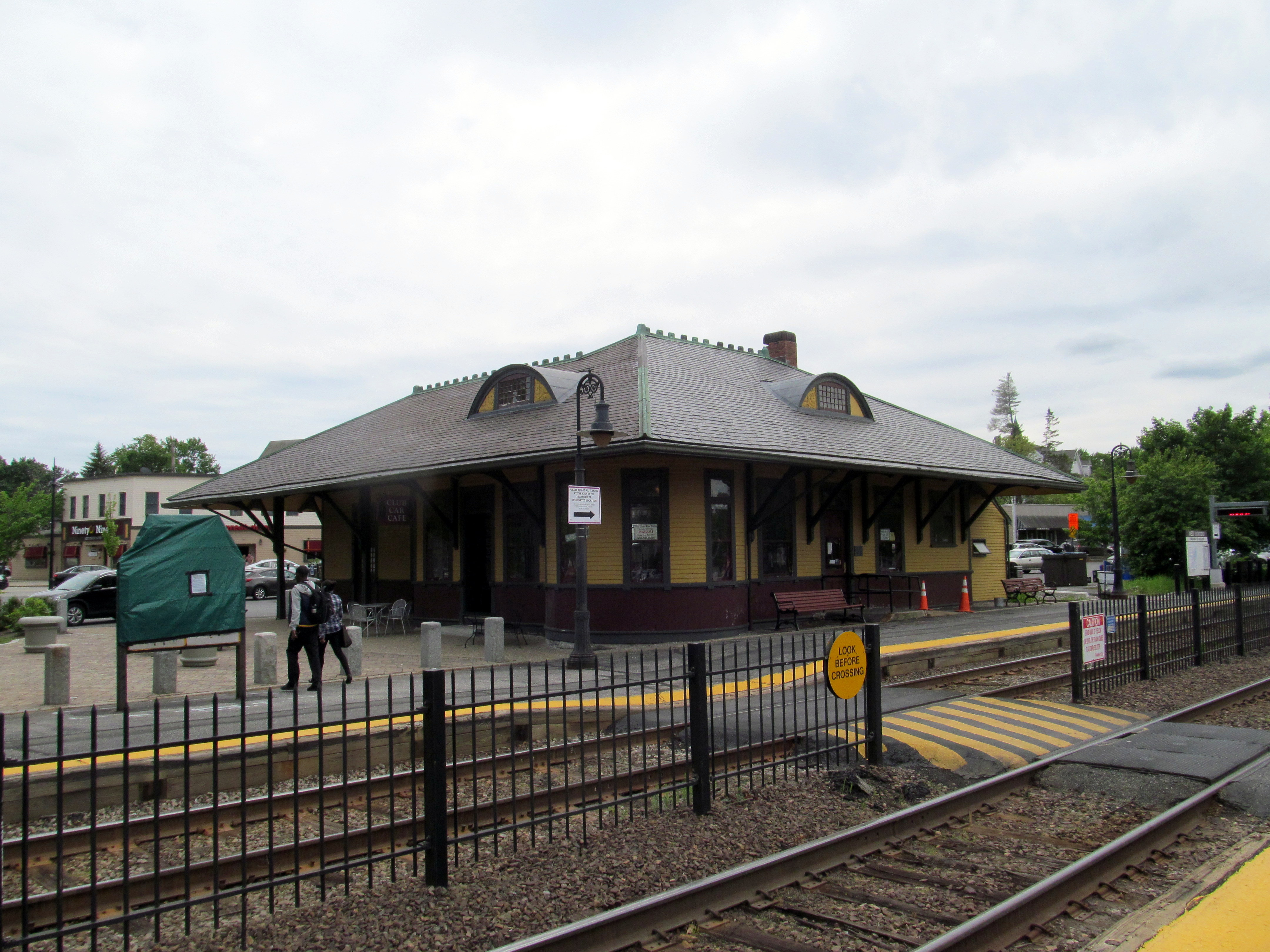 West Concord station in May 2017